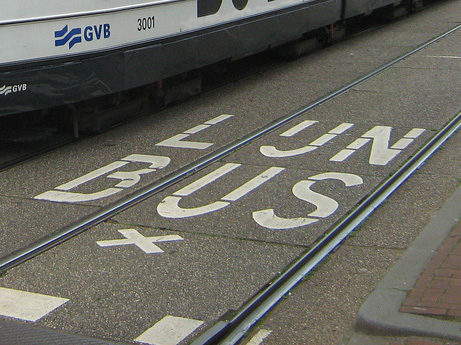 Lijnbus ("line bus") road marking in Amsterdam